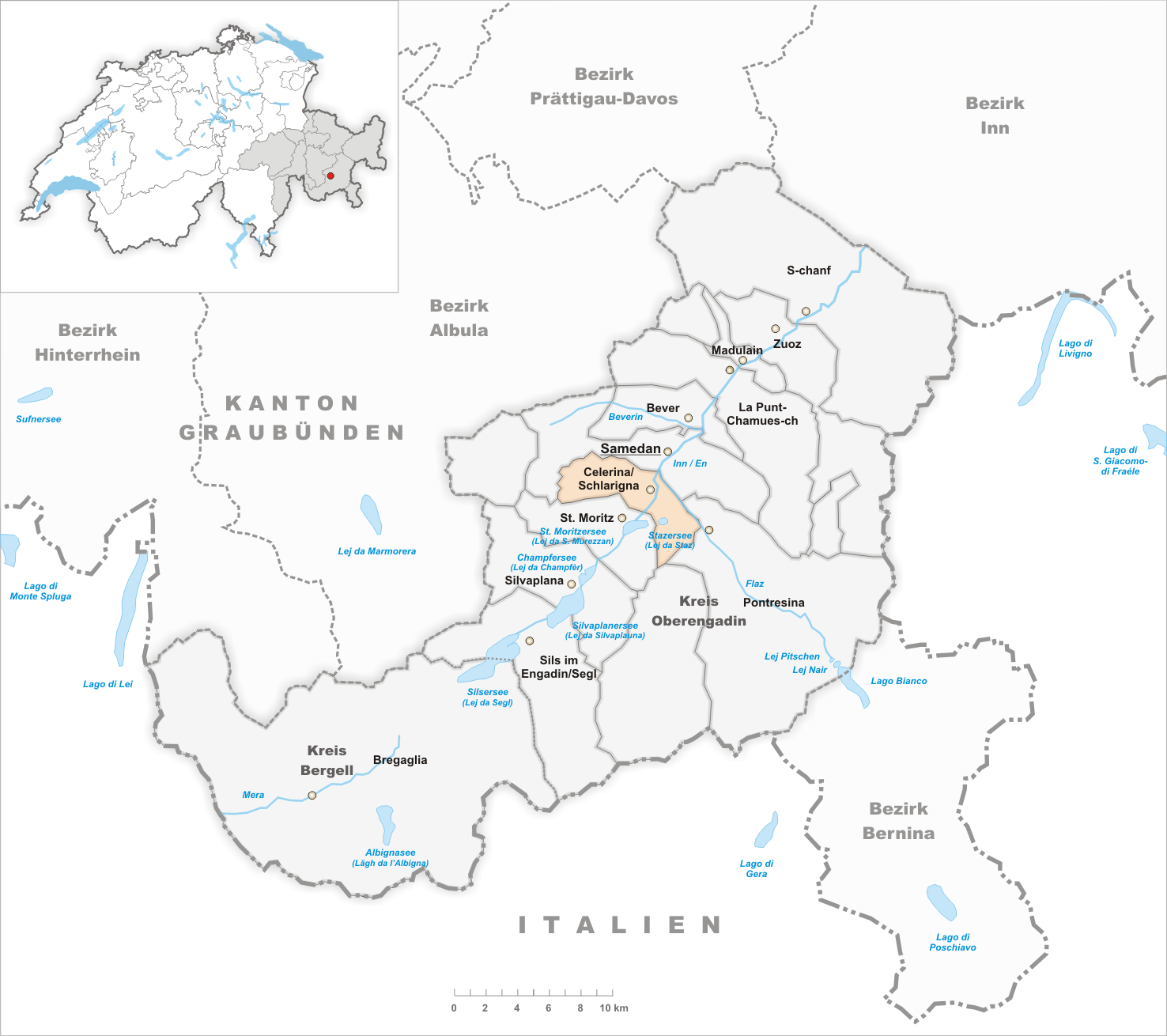 Municipality Celerina/Schlarigna